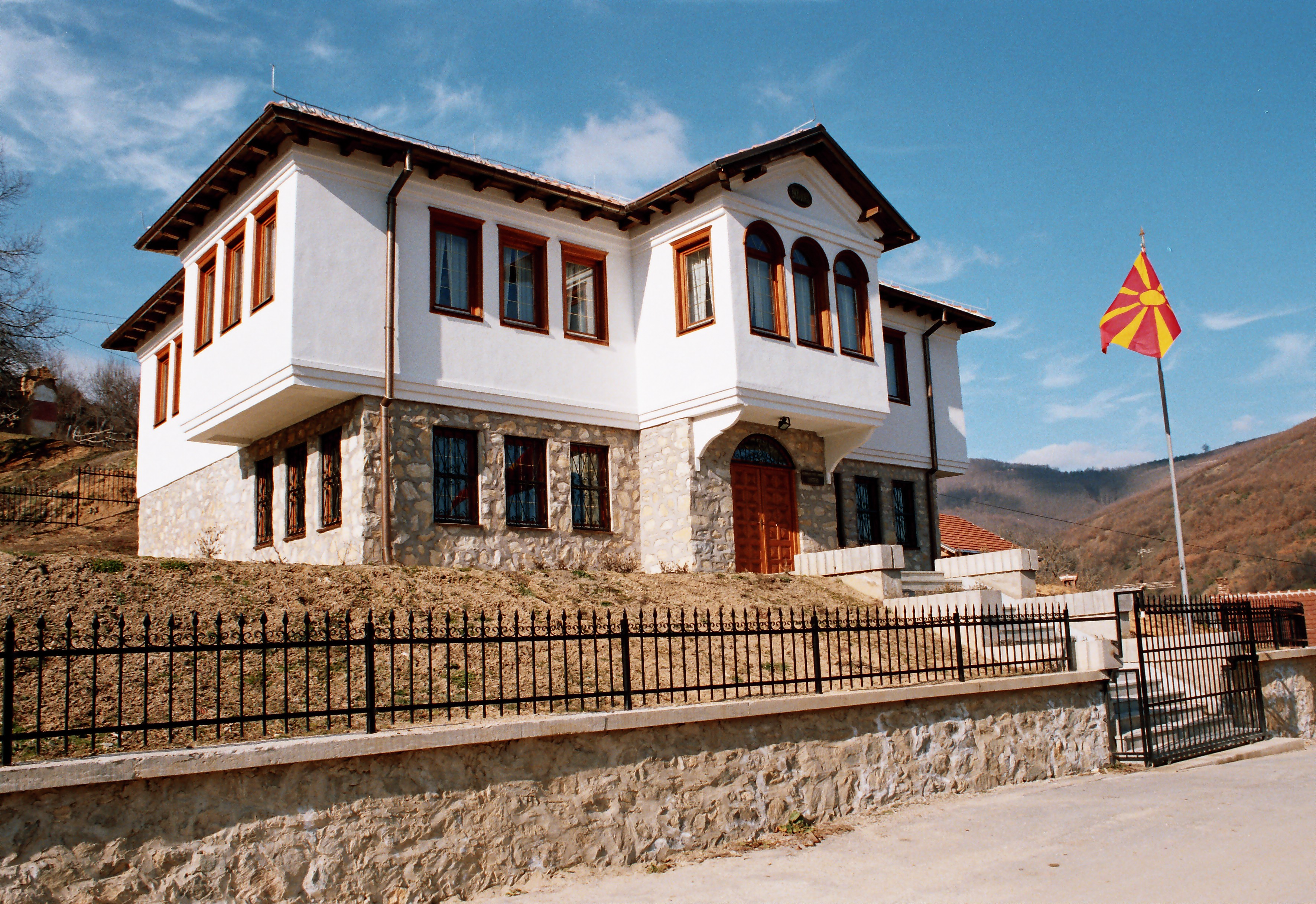 Muzej Smilevo.jpg